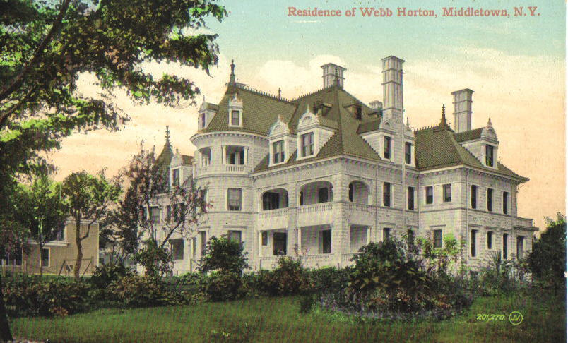 A 1909 postcard depicting Webb Horton House.